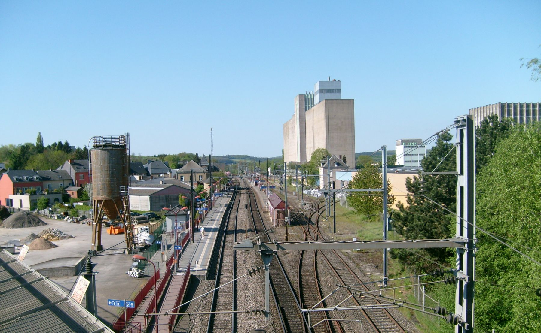 Mersch railway station, Luxemburg